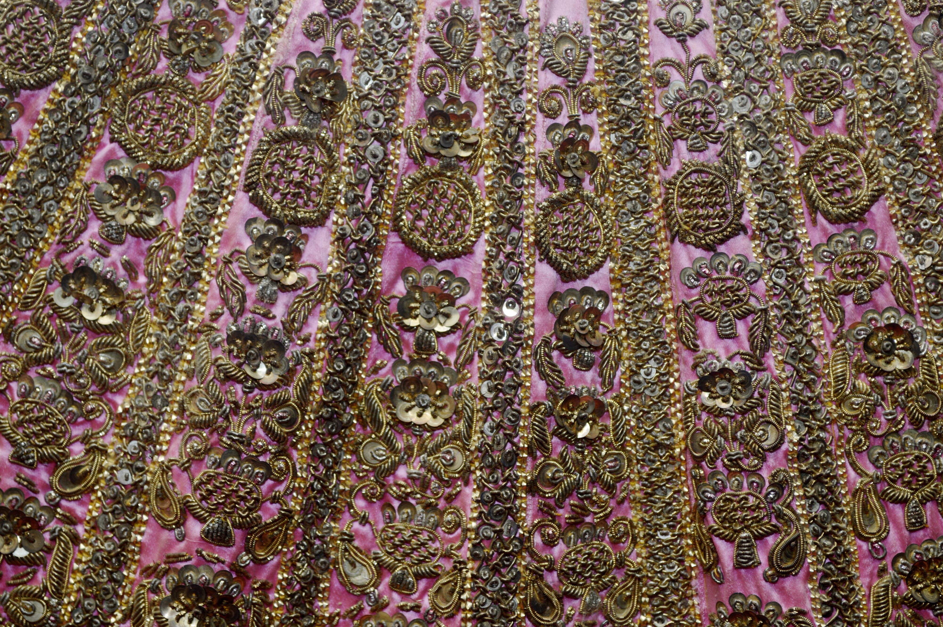 Pink skirt with embroidery, detail, Crafts Museum, New Delhi, India.